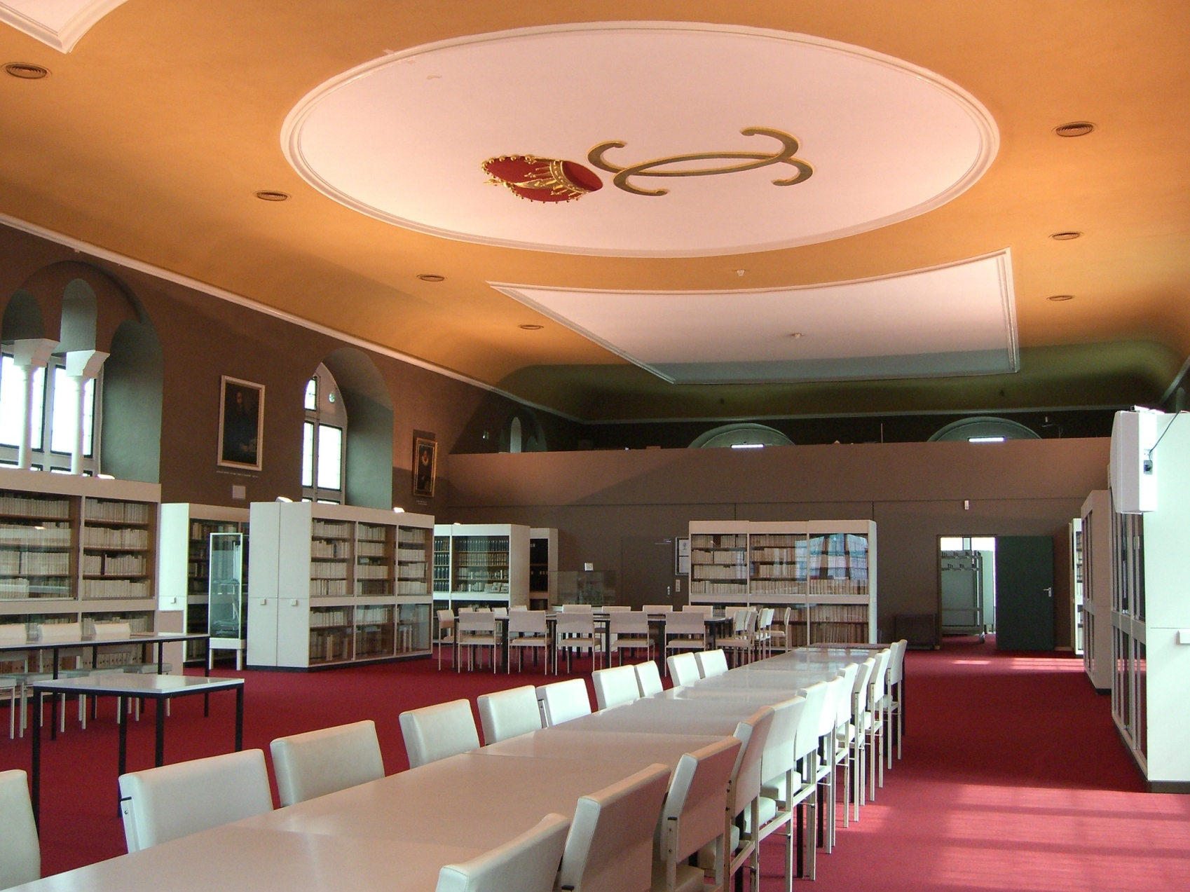 Library of the former University of Helmstedt on the upper floor in the Juleum building.